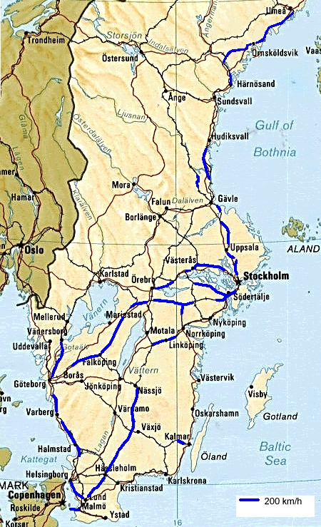 Map of Swedish railway lines having 200 km/h or more as maximum speed, and being used at that speed, as of end 2012.